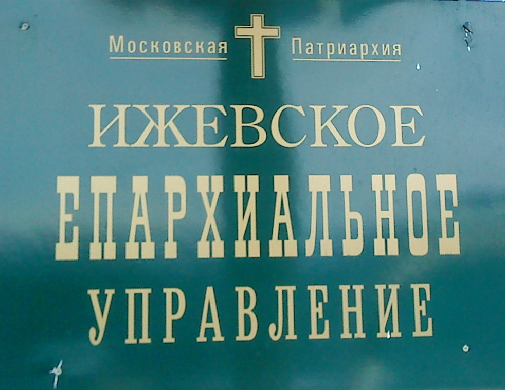 управление церквей